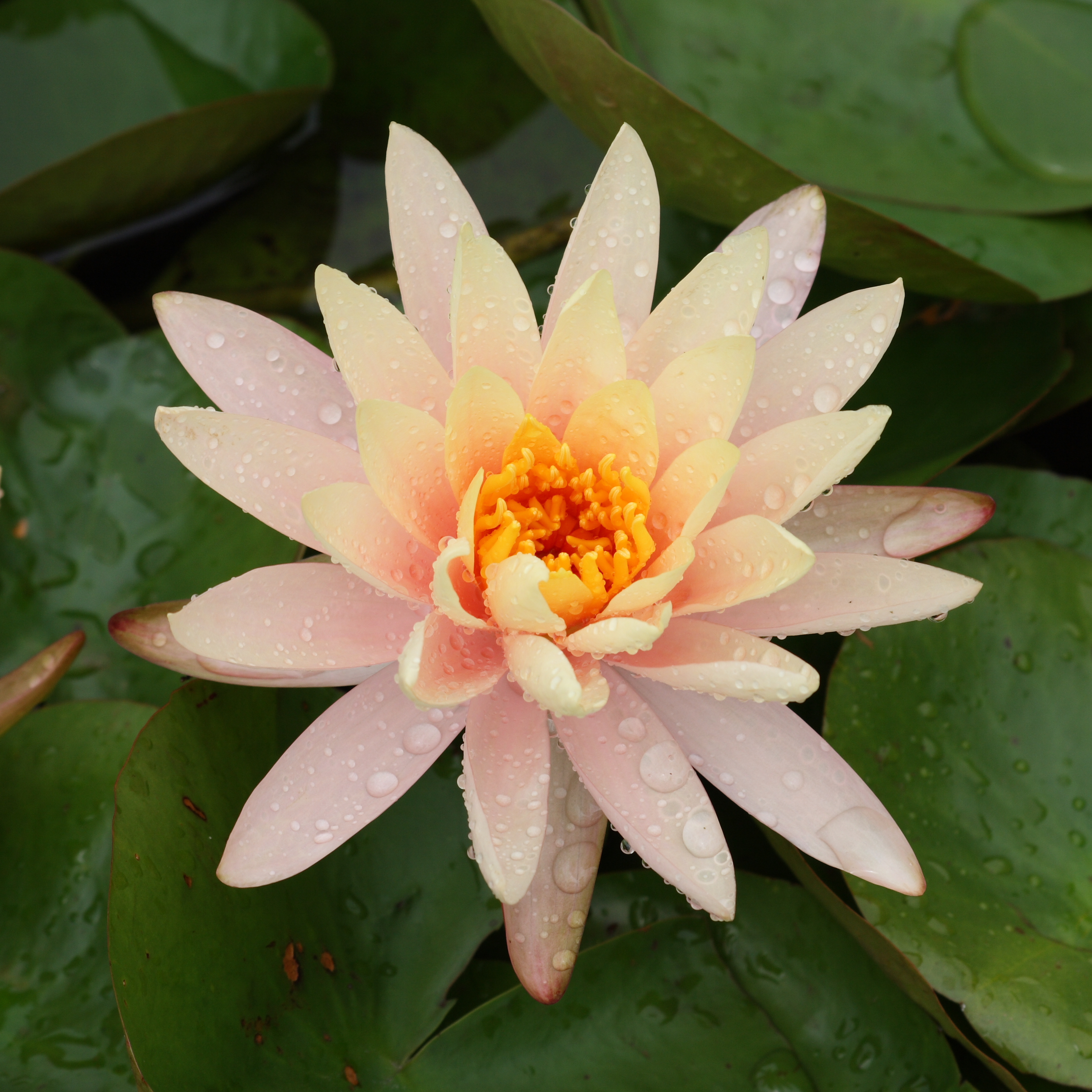 A flower of the 'Peach Glow' cultivar of hardy water-lily (genus Nymphaea), photographed just after rain at the Brooklyn Botanic Garden